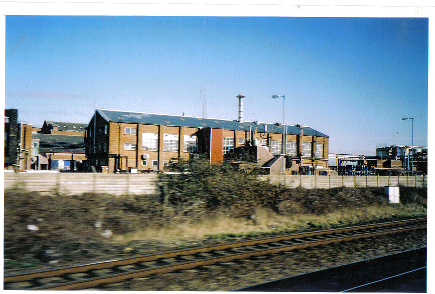 A picture of a part of Slough Trading Estate, very near to Slough station, heading towards Paddington.